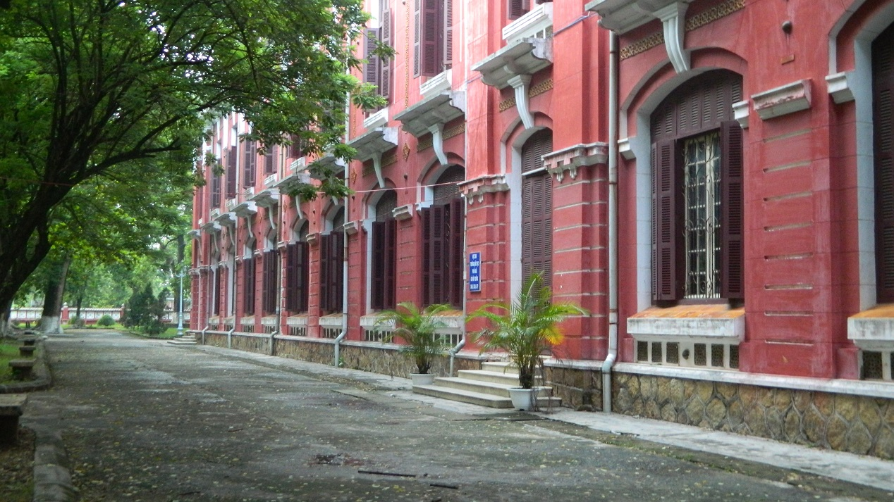 Quoc Hoc Hue Classrooms